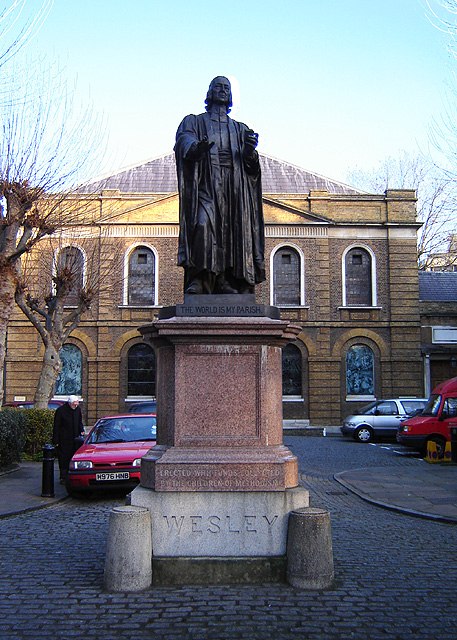 John Wesley statue, Wesley's Chapel, City Road, Shoreditch, London. 28 january 2006. Sculptor : John Adams-Acton (1831-1910) Photographer: Fin Fahey.